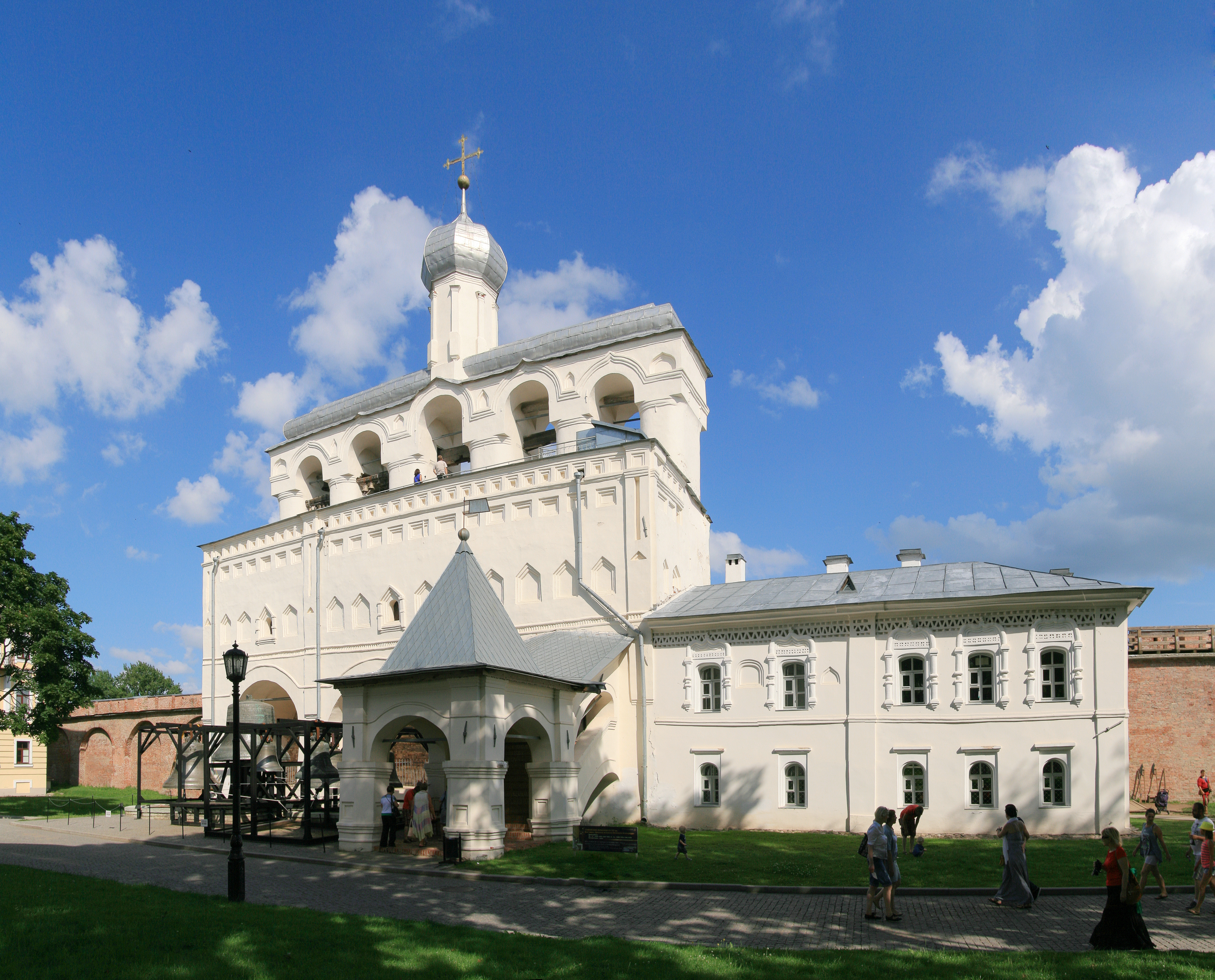 Belfry of Saint Sophia Cathedral, 1439, Novgorod